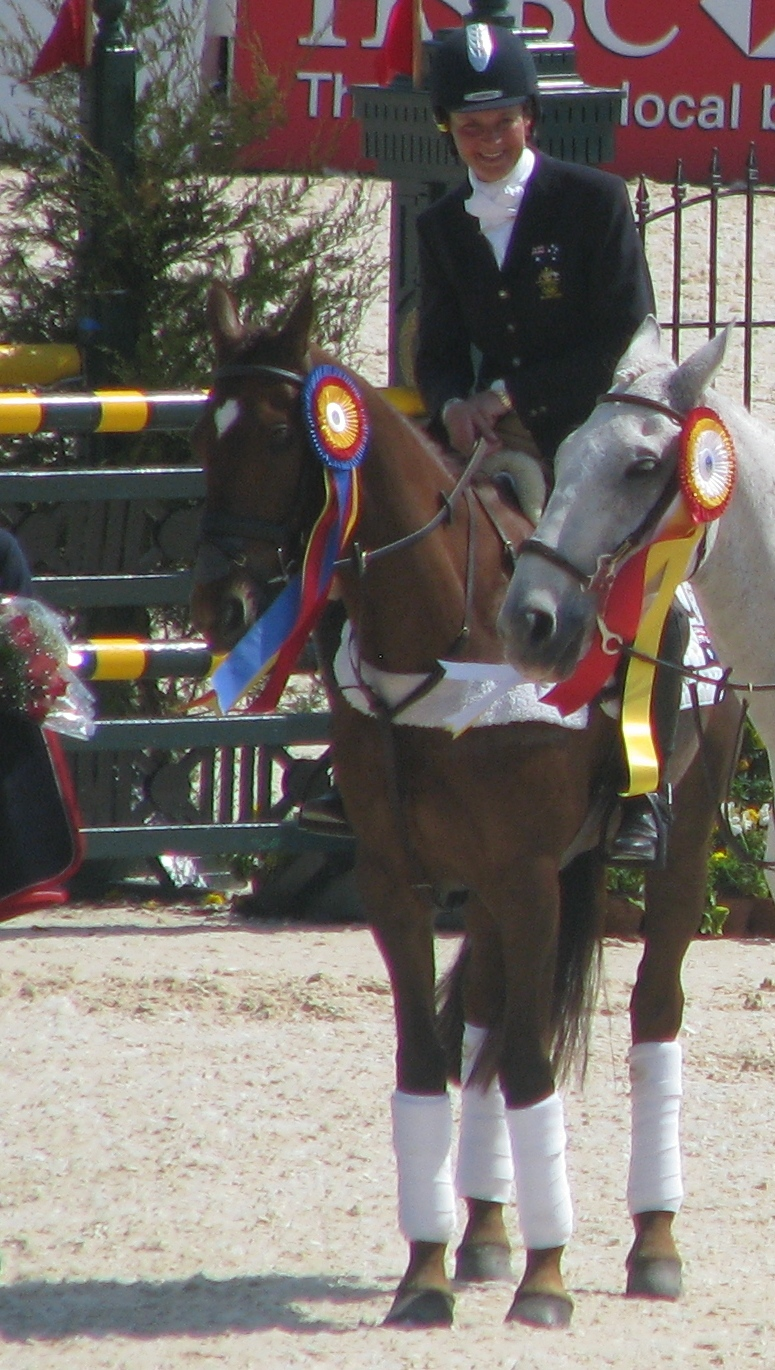 Rolex Kentucky Three Day Event (CCI 4*) 2009, presentation ceremony - Lucinda Fredericks with Headley Britannia